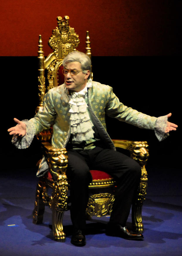 Photo of Corrado Guzzanti - Giulio Tremonti.